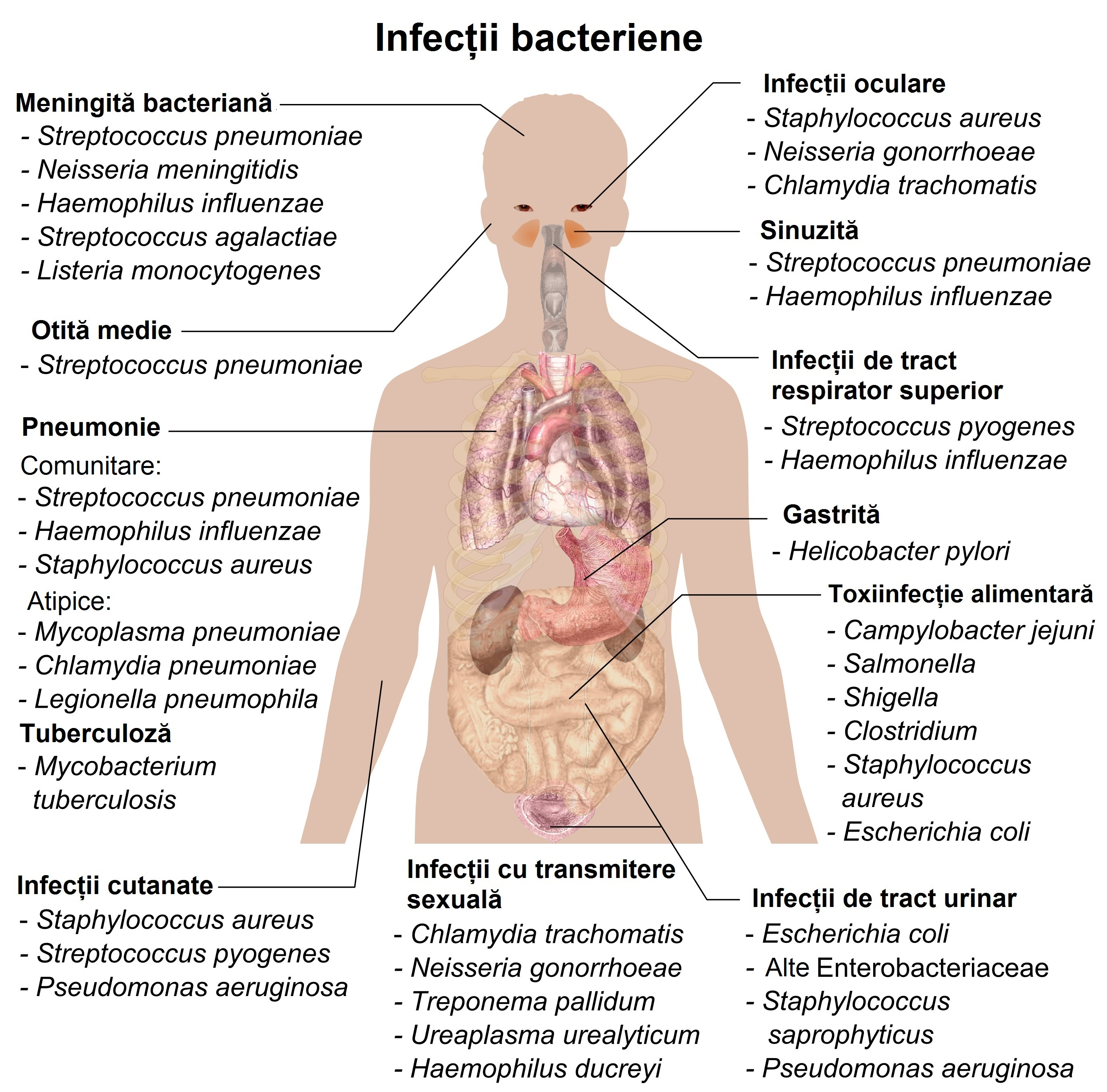 Overview of the main bacterial infections and the most notable species involved.